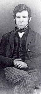 Jay Gould in 1855. Notes Source: Rutgers University archive Online-source here. Say, Richard, why did you plaster "Rutgers University archive" anywhere when the images appear to have been taken from other web sites? Lupo 08:38, 27 March 2006 (UTC) cc-by-2.5